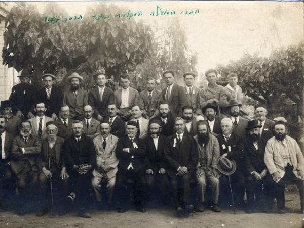 A group picture of the members of Petah Tikva's local council in 1927.